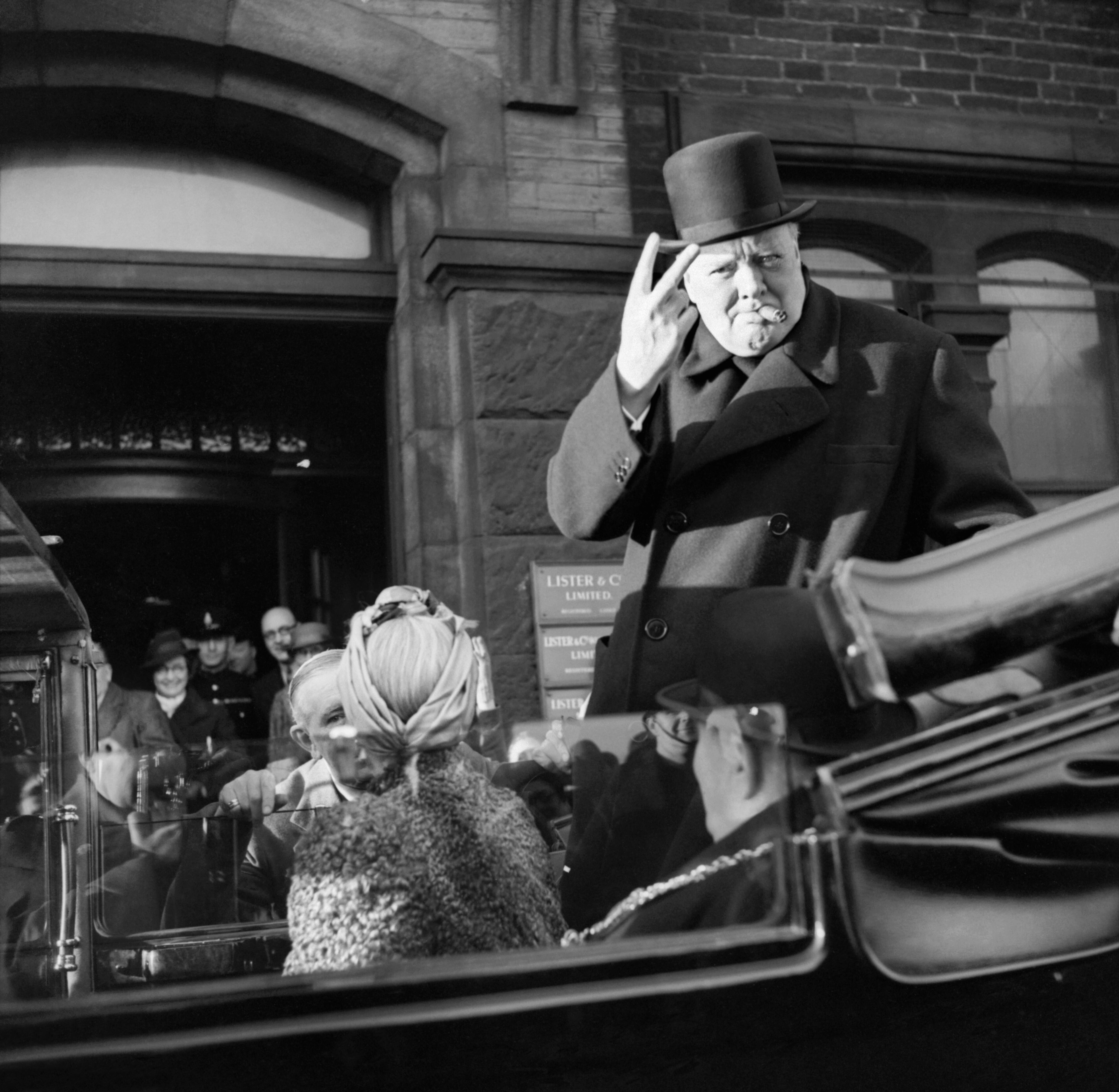 Winston Churchill, cigar in mouth, gives his famous 'V' for victory sign during a visit to Bradford, 4 December 1942. Churchill, cigar in mouth, gives his famous 'V' for victory sign during a visit to Bradford, 4 December 1942.